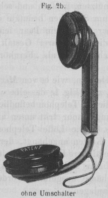 Early handset (combining transmitter and receiver in a single piece), made by Mix & Genest, c. 1889.